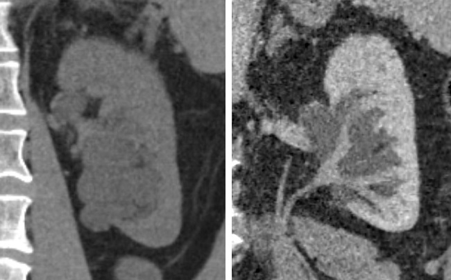 edit A case of a 71 year old man with slightly elevated creatinine. A non-contrast CT scan shows fluid-attenuating volumes by the renal pelvices, which could be hydronephrosis. However, CT urography shows normal size of renal calyces and penvices, and the volumes are thus parapelvic renal cysts. Coronal planes: Non-contrast CT CT urography Combined Similar case: (2008). "Bilateral parapelvic cysts that mimic hydronephrosis in two imaging modalities: a case report". Cases Journal 1 (1): 161. ISSN 1757-1626.